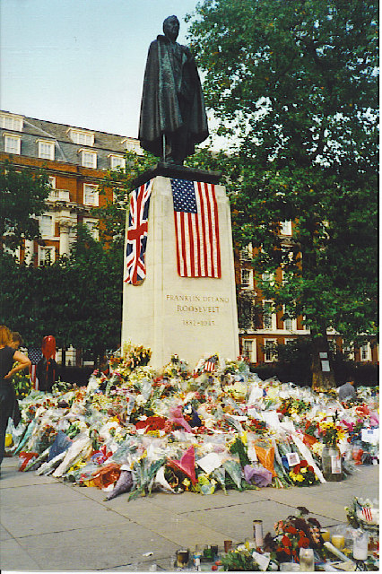 Franklin Delano Roosevelt Memorial, Grosvenor Square. The statue was unveiled in 1948 and sits in a garden dedicated to FDR. This is in an area with an agglomeration of embassies, including the US Embassy which occupies the western side of the square. The flowers above were laid after the attack on the World Trade Centre in New York.